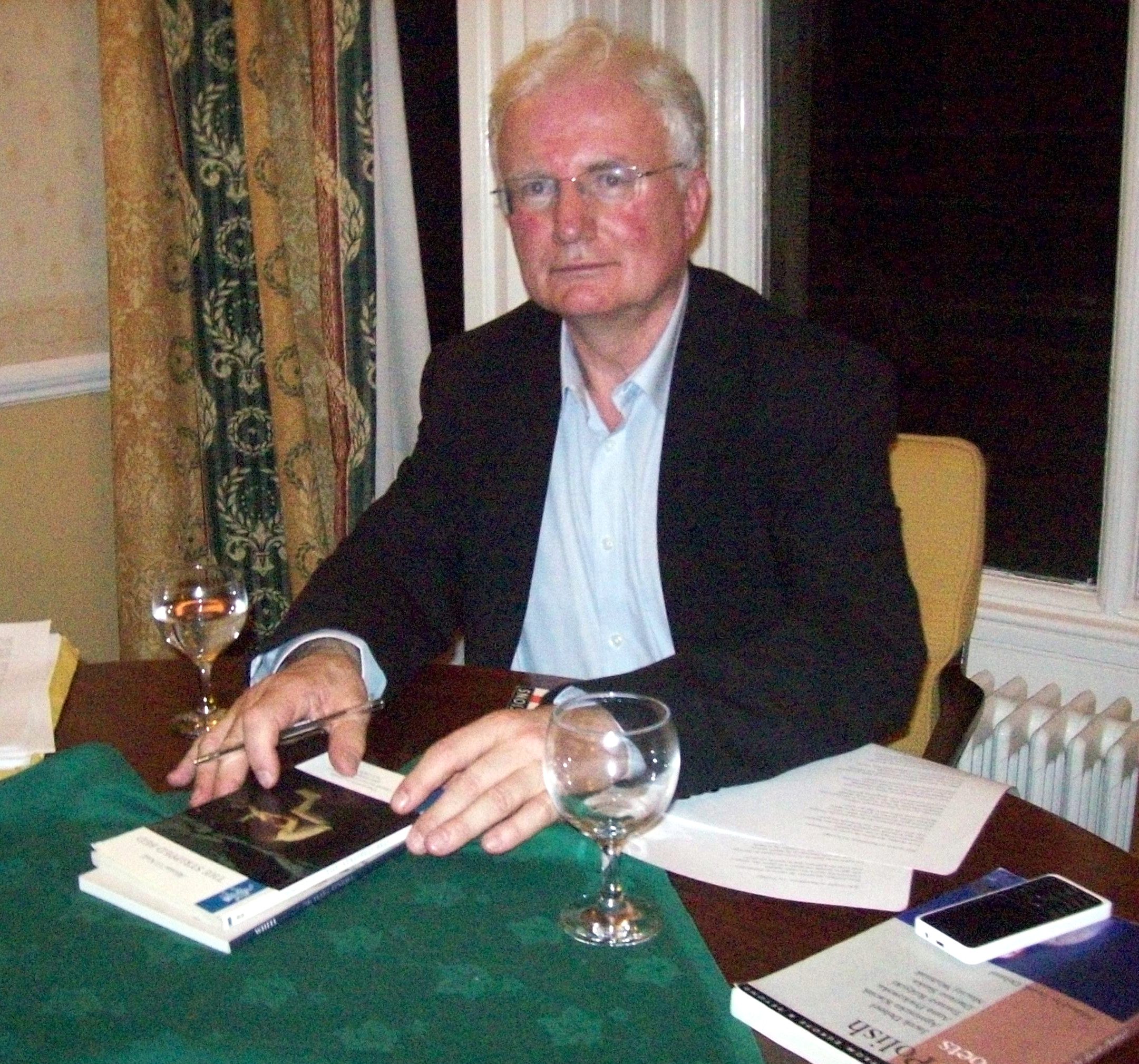 It was a pleasure to be in the audience at a recent St.Cuthbert's Senior Common Room reading where Michael O'Neill and Jacek Dehnel the Polish poet, translator and editor read from their works. Here Michael O'Neill is signing my copy of his collection; The Stripped Bed. He read from that and from his later collection: Wheel, from which his following poem is an exampler: NORFOLK Sand-martins whirling out of cliffs. Hay trussed in roly-poly bales. Stalled windmills. Big Skies. A place for weather-watching rites, for money to invest in, rewarding itself with the obligatory boat and a lawn that tapers off in search of water, life's elixir, leisure's mirror... Walsingham and Cromer: the manufactured shrine with something - nothingness? -- candled at its heart, the deft resort with one eye on your wallet and one on the enigma of the sky that bends above the threatened beach where if, as they heap and spill, drag and heap, the waves are trying to communicate - some maxim, perhaps concerning survival, the need to endure, to hope just enough - to find you're baffled, you can't hear a word. Michael O'Neil is Professor of English at Durham University, his poetry has been recognised by an Eric Gregory Award and a Cholmondeley Award.